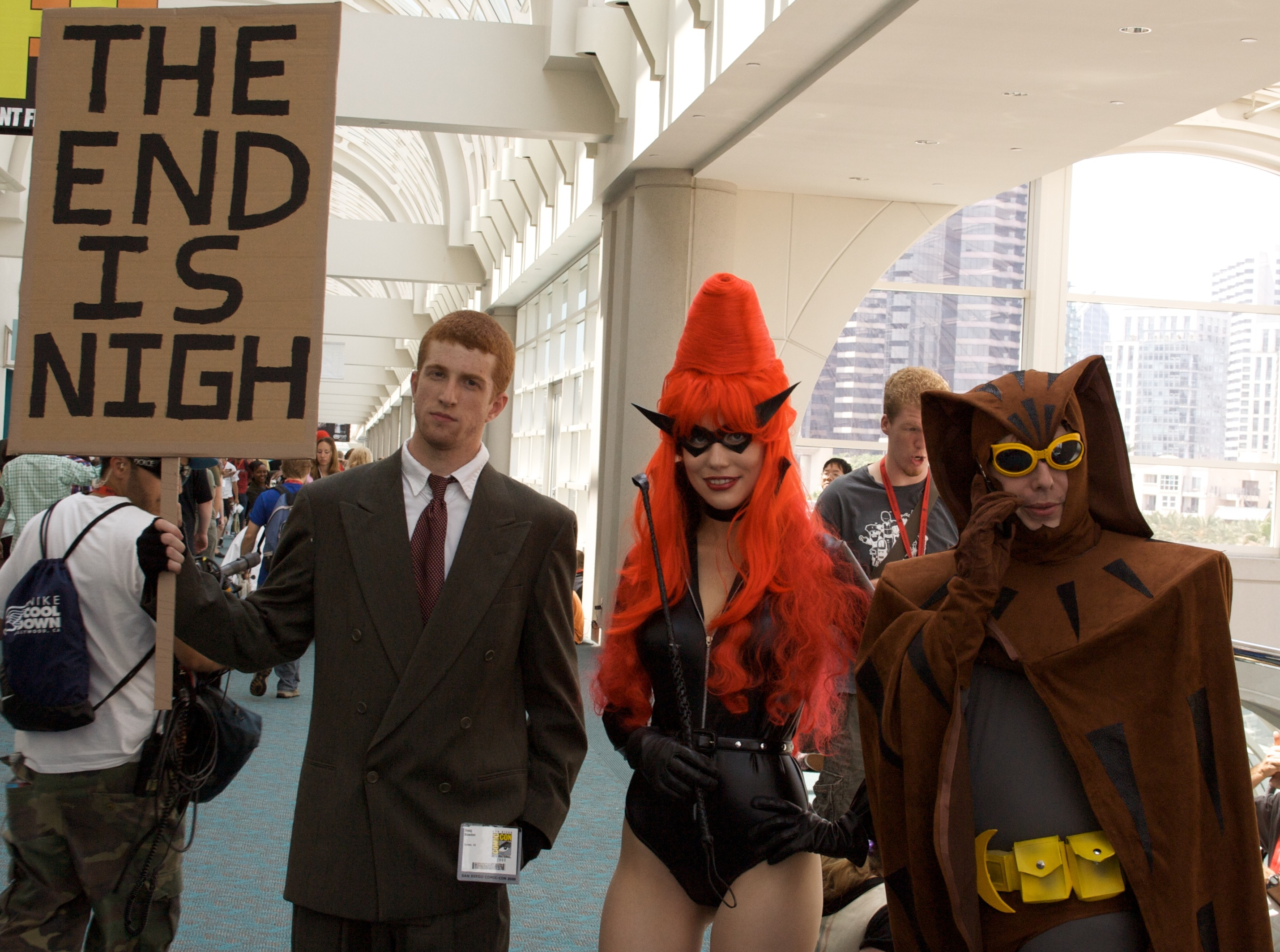 Watchmen cosplay at Comic-Con 2009. Taken on July 24, 2009.